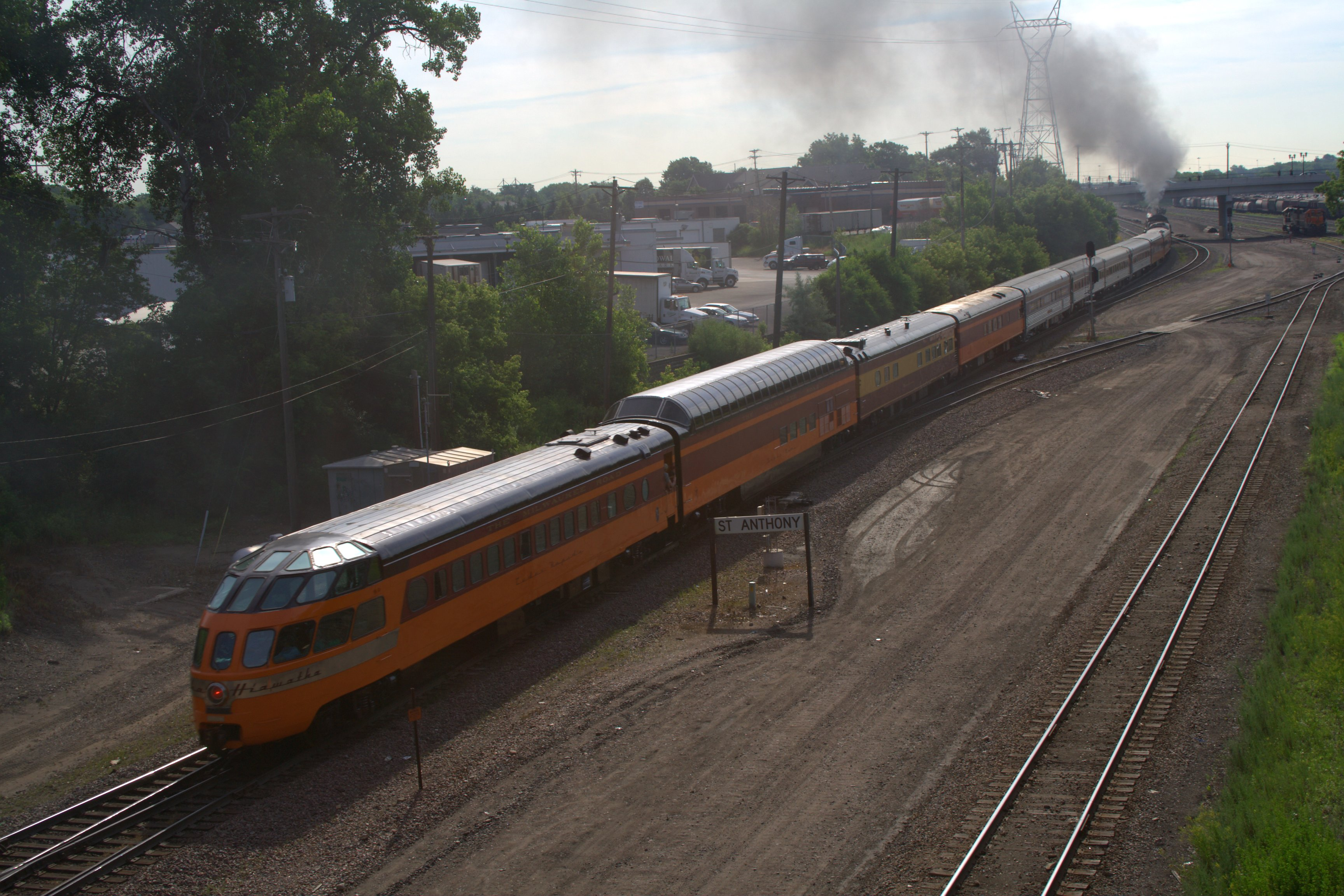 ...And we round out the train with three more. A total of 14 distinct units going by on the rails today. Excursions with the Milwaukee 261 include a "Skytop Lounge" these days, a streamlined observation car that used to be on the tail end of Hiawatha trains running mainly from Minnesota to Chicago and back. Hiawatha service still exists under Amtrak, but it only runs between Chicago and Milwaukee (the upside of which is that it has the best on-time record in the Amtrak system).